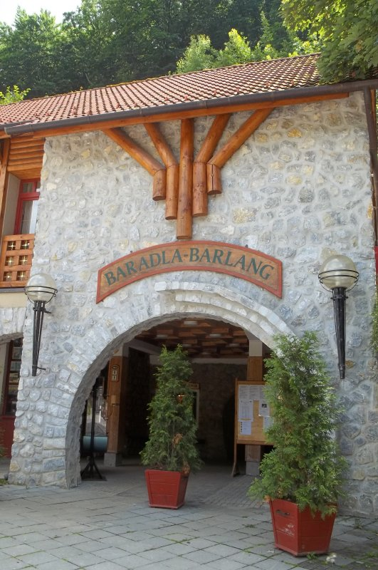 Entrance in Jósvafő